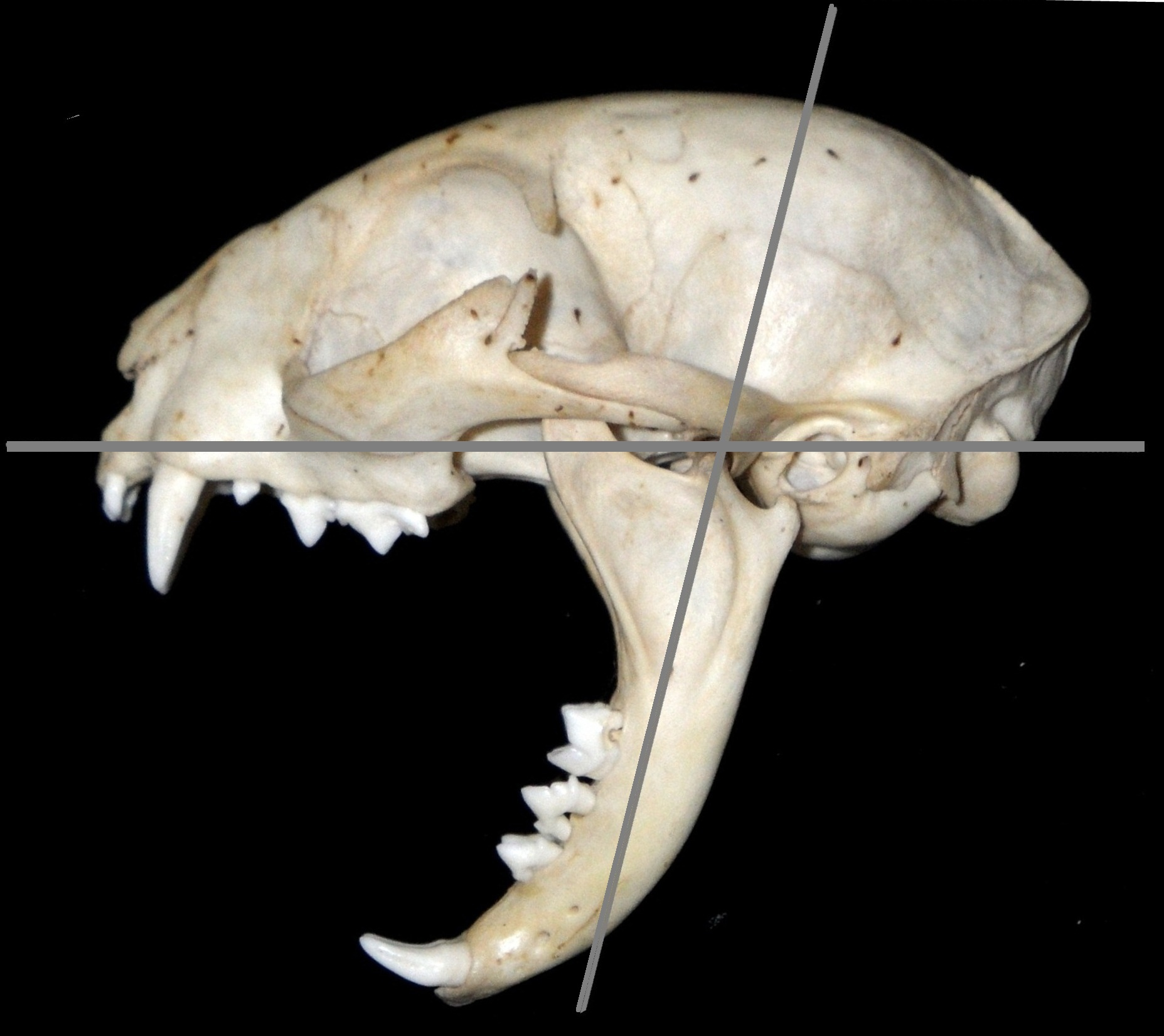 the modern domestic cat skull, felis catus, with jaws set at maximum gape, 80 degrees